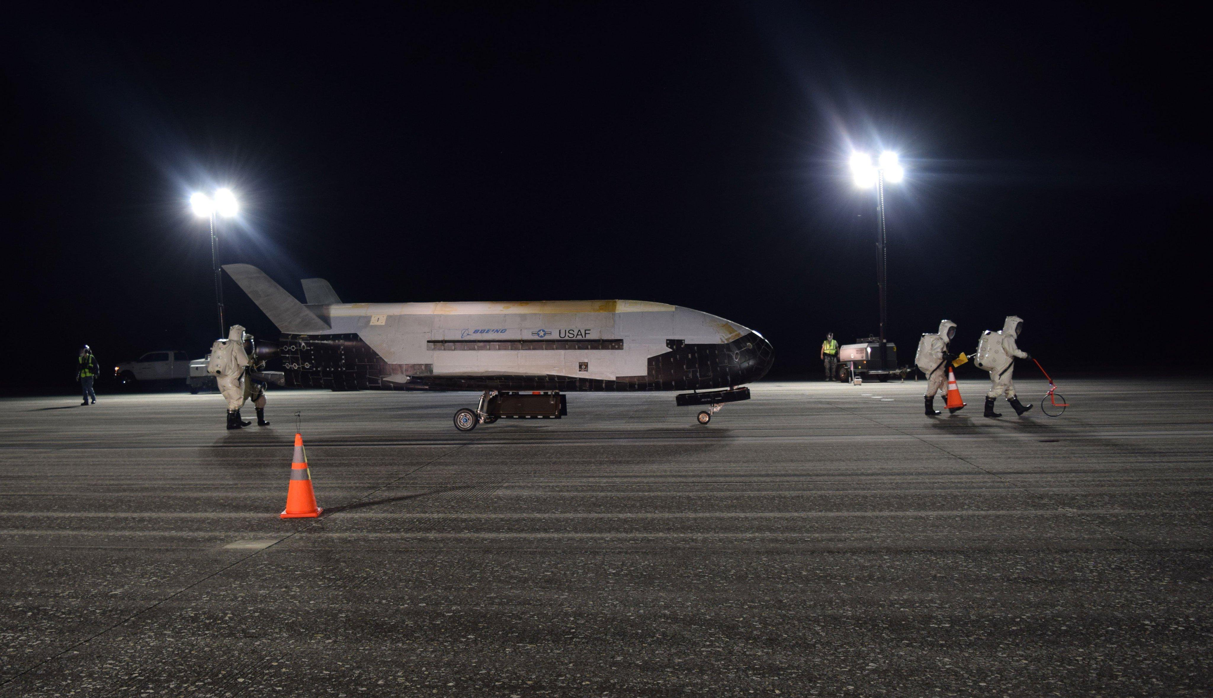 X-37b at NASA Kennedy Space Center Shuttle Landing Facility 2019, Oct. 27